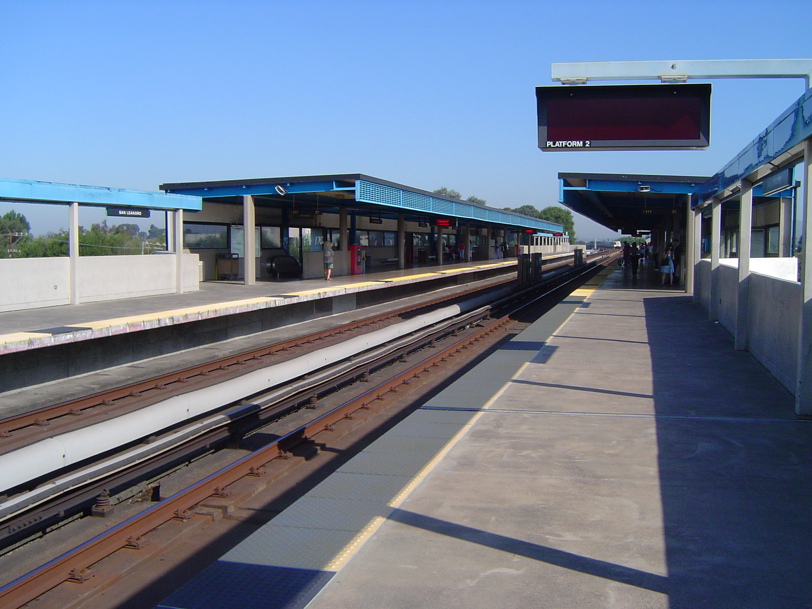 San Leandro BART station in 2006